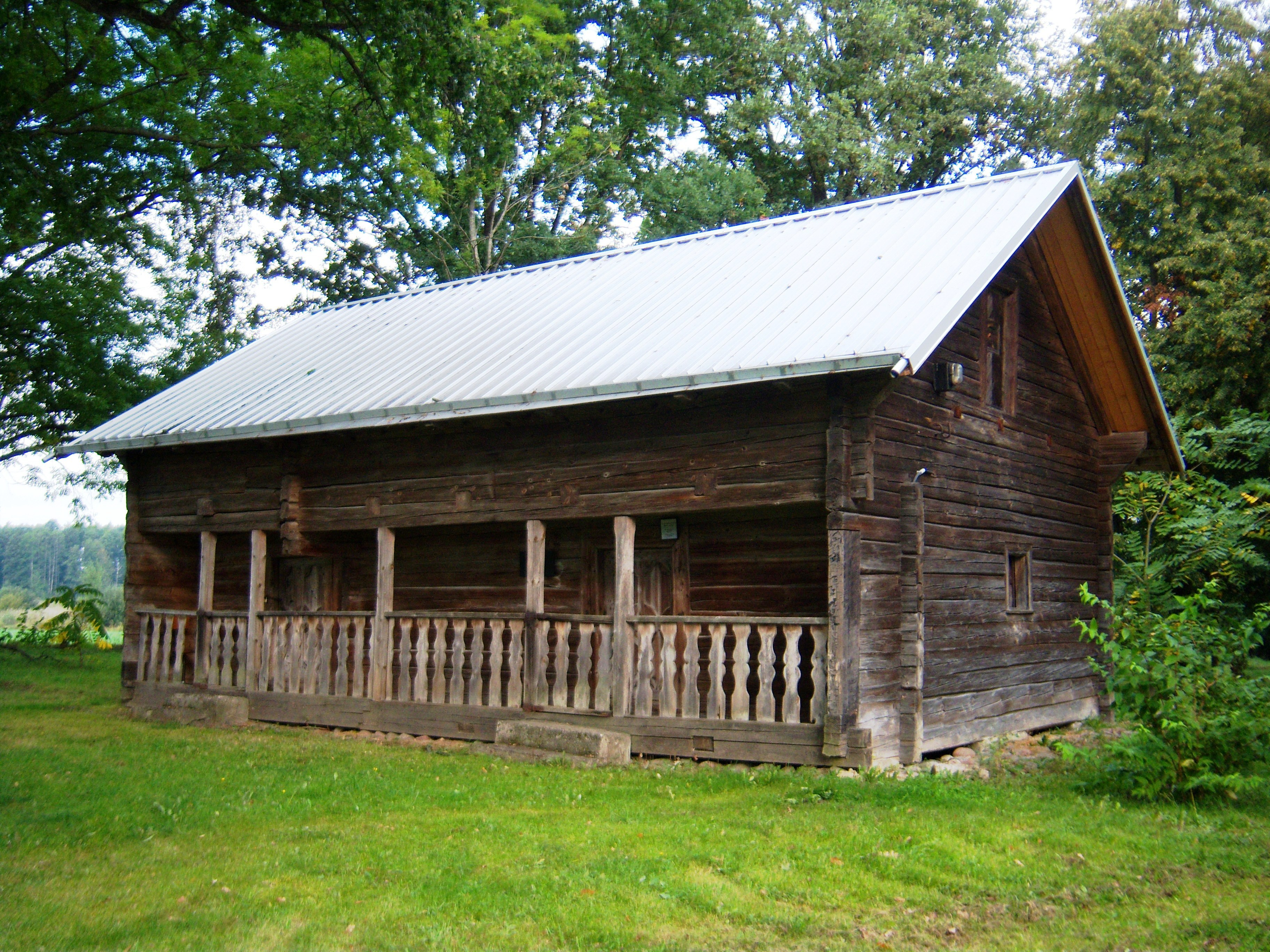 Memorial barn in poet Vincas Kudirka's native homestead in Paežeriai (Pilviškiai Eldership), Vilkaviškis District, Lithuania